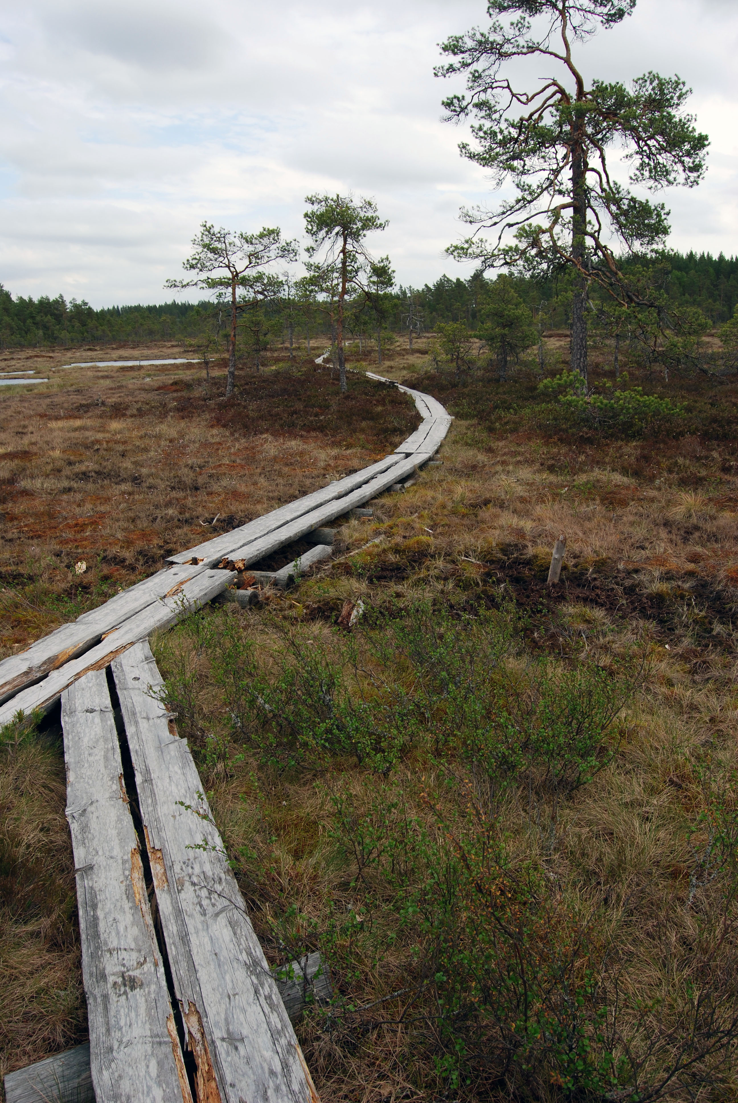 Duckboards at Isosuo mire in Huittinen, Finland